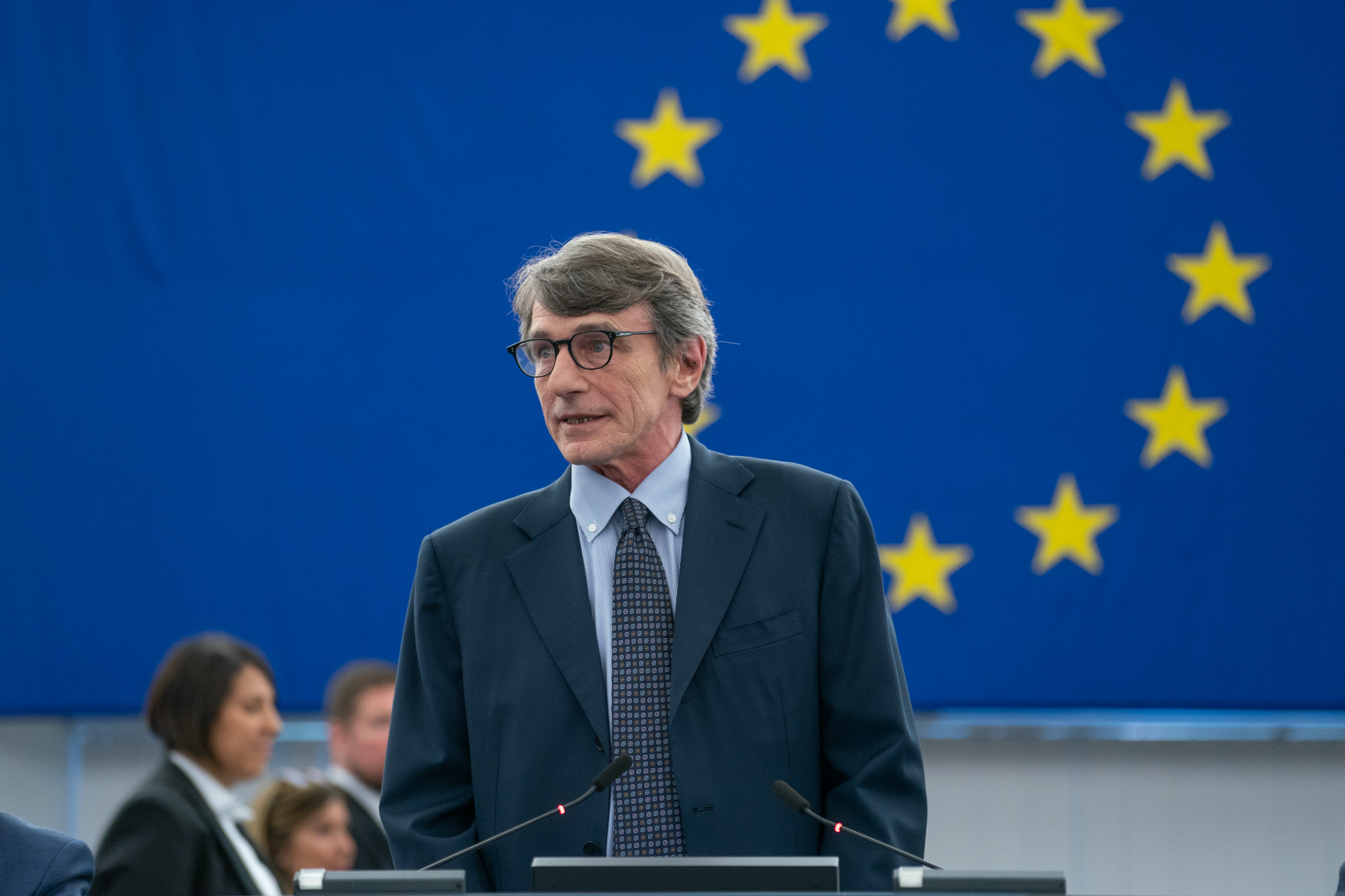 This photo is free to use under Creative Commons license CC-BY-4.0 and must be credited: "CC-BY-4.0: © European Union 2019 – Source: EP". No model release form if applicable. For bigger HR files please contact: webcom-flickr(AT)